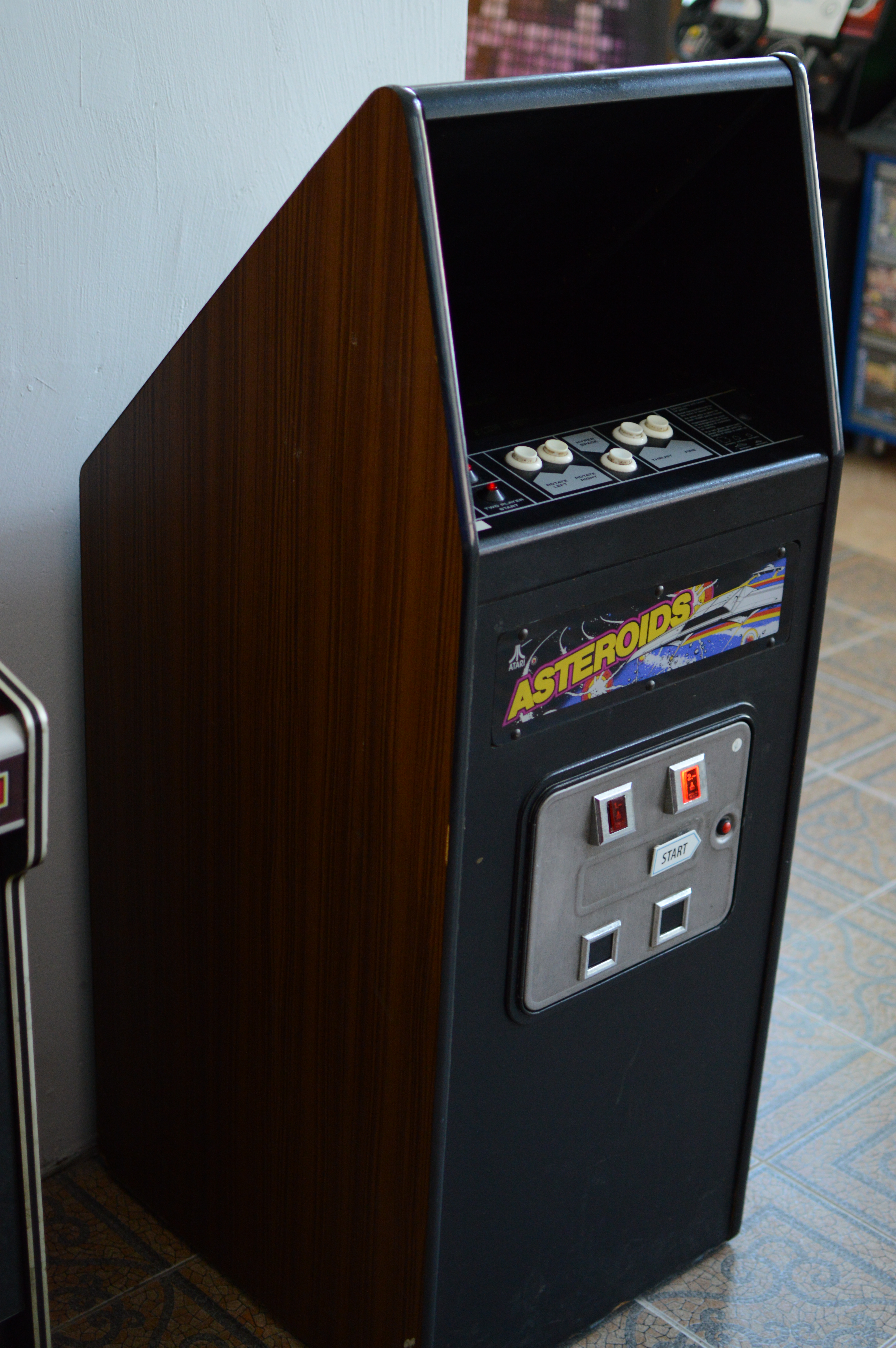 Asteroids arcade video game